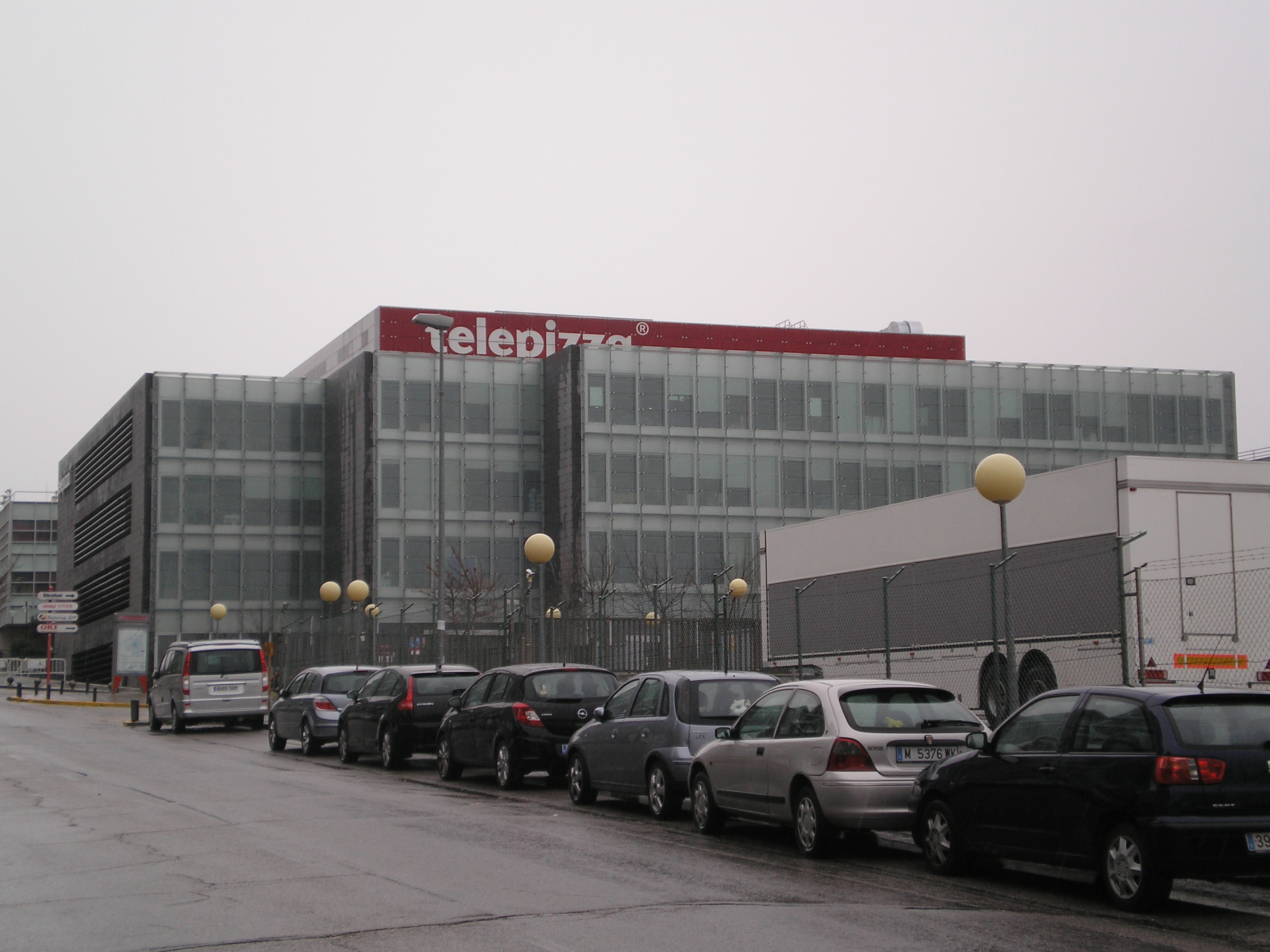 Telepizza headquarters in San Sebastián de los Reyes, Madrid.